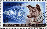 Space Hero. Laika's journey was commemorated with stamps.